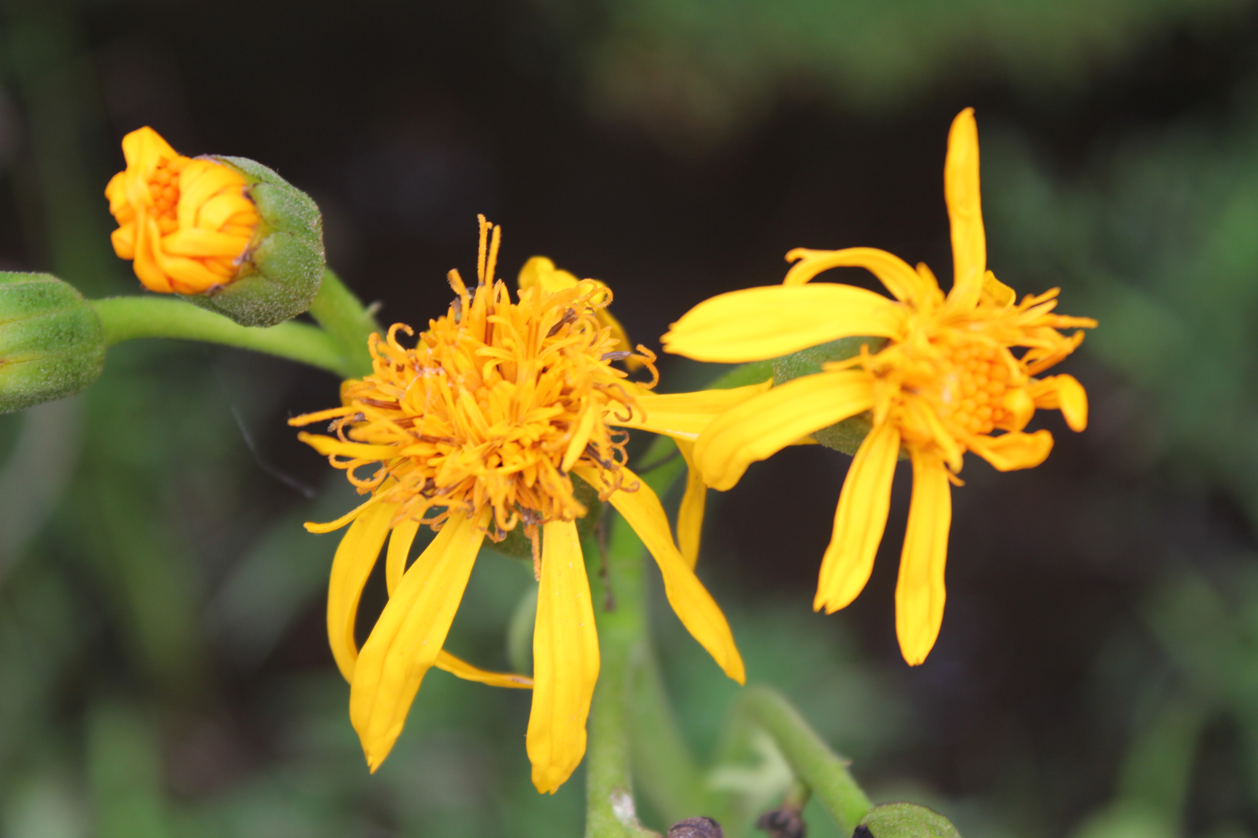 Flowers of Ligularia japonica at Mt. Huangzui Ecological Protected Area, Yangmingshan National Park, Taipei, Taiwan.